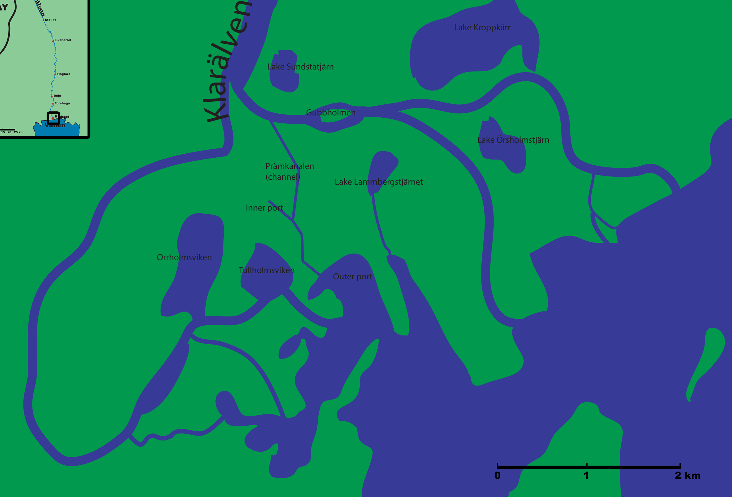 Map of the water in Karlstad region, Delta of Klarälven